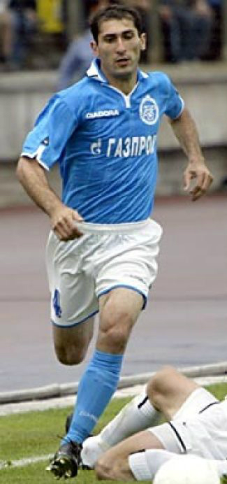 Sargis Hovsepyan in action for FC Zenit St. Petersburg